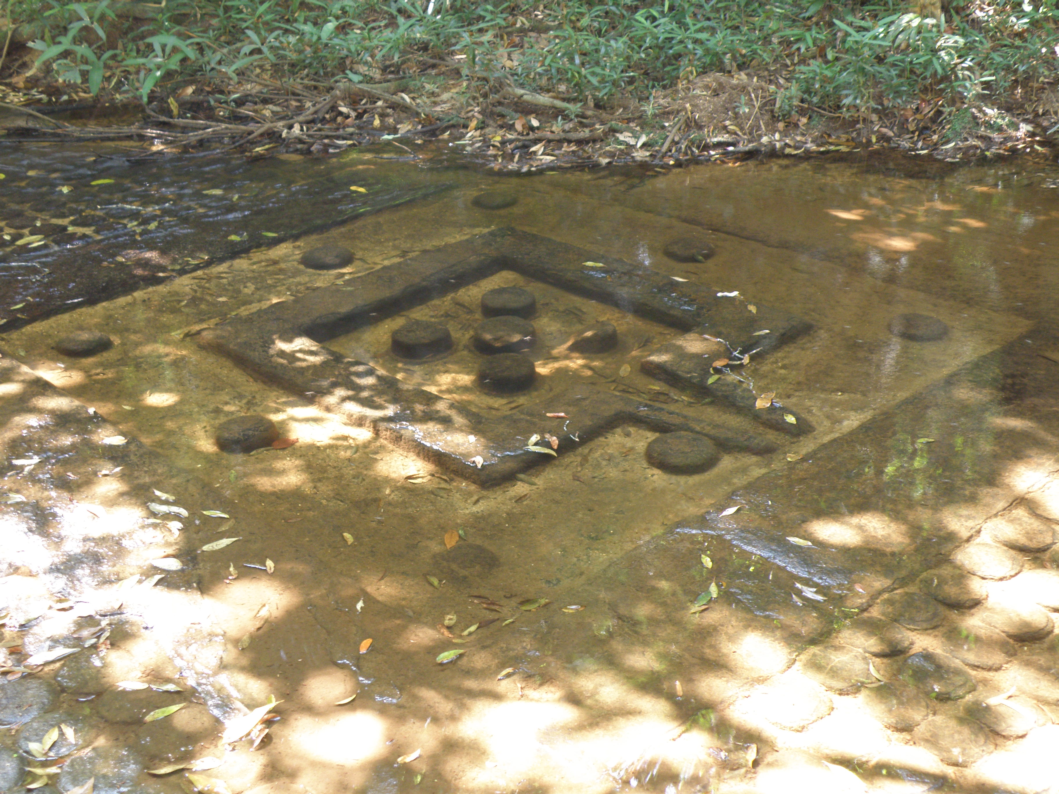 Thousand lingas river - Kbal Spean - Cambodia